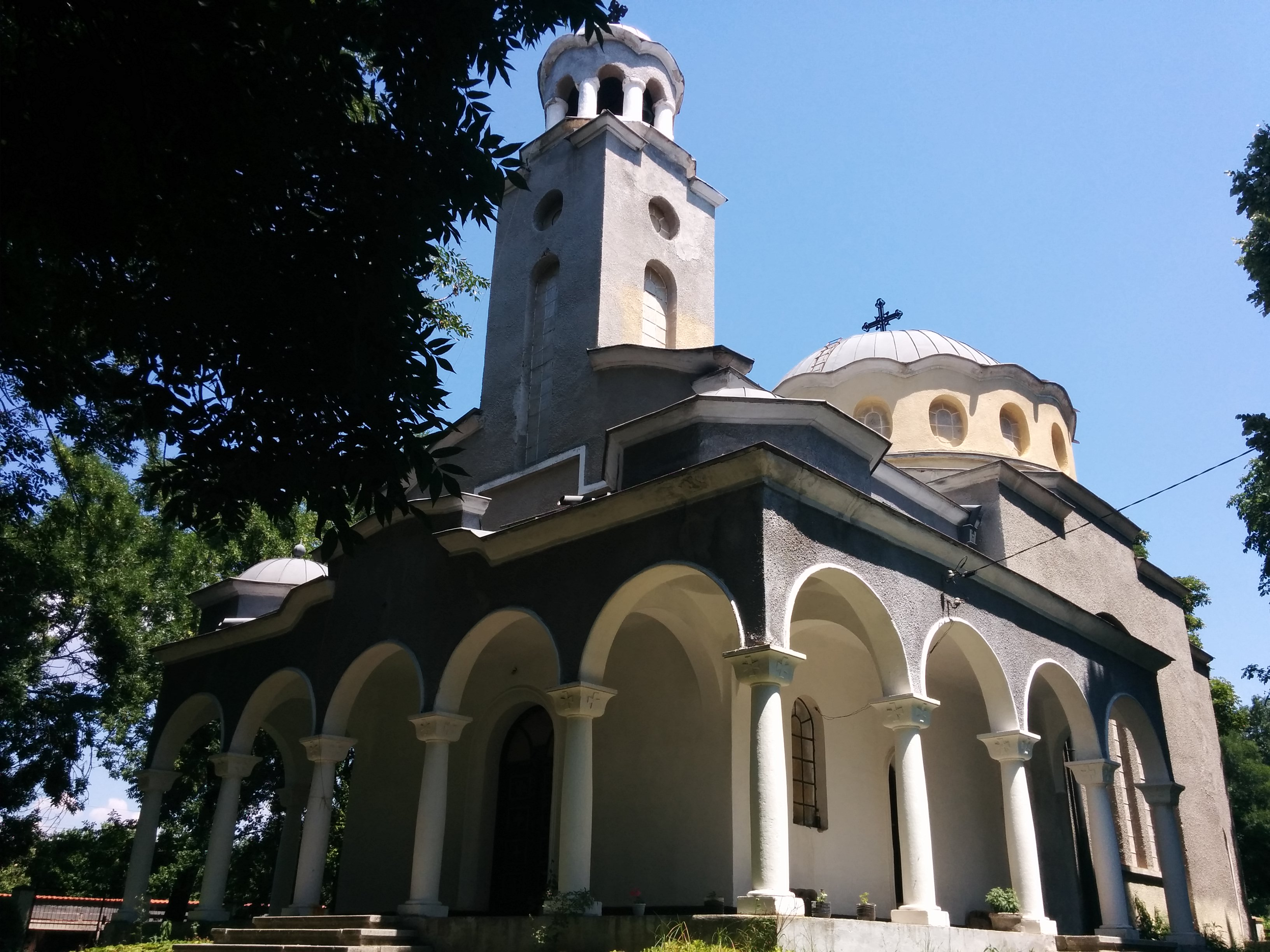 The new church in Dolni Rakovets